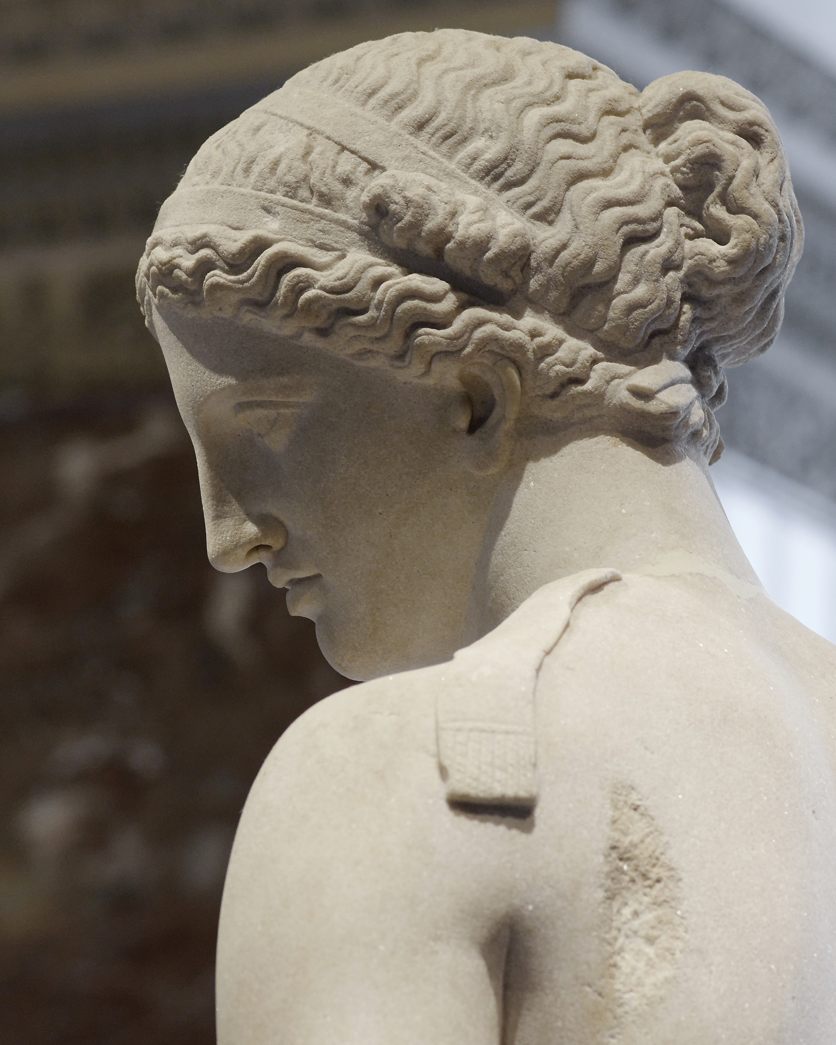 Statue of Aphrodite, known as the Venus of Arles. Hymettus marble, Roman artwork, imperial period (end of the 1st century BC), might be a copy of the Aphrodite of Thespiae by Praxiteles. The apple and the mirror were added during the 17th century. Found in the ancient theatre of Arles, France.